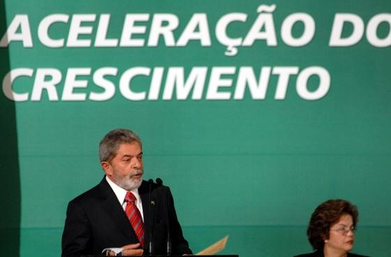 Brasília - O presidente Luiz Inácio Lula da Silva anuncia o Programa de Aceleração de Crescimento (PAC), que pretende investir mais de R$ 500 bilhões em infra-estrutura até 2010. Ao lado, a ministra-chefe da Casa Civil, Dilma Rousseff. Foto: Marcello Casal Jr./ABr